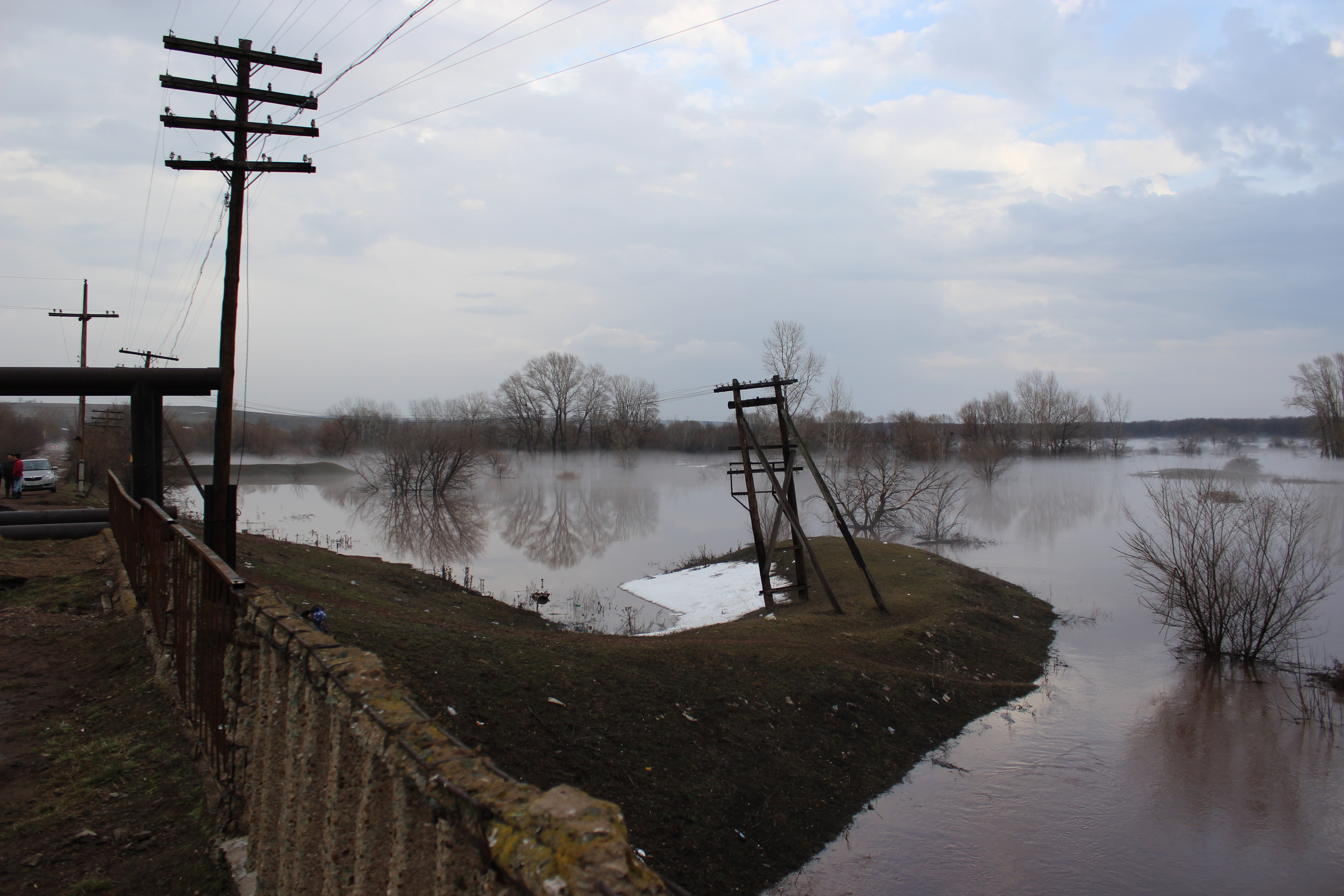 Sorochinsk. Old Bridge. The flood of 2013.